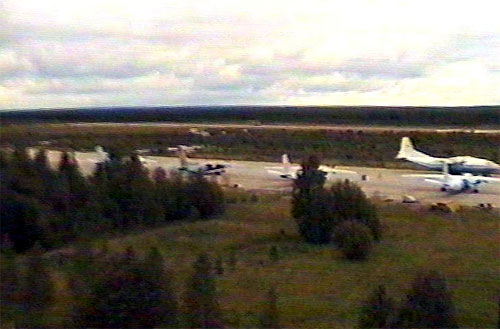 Plestsy airport / VHS tape record capture